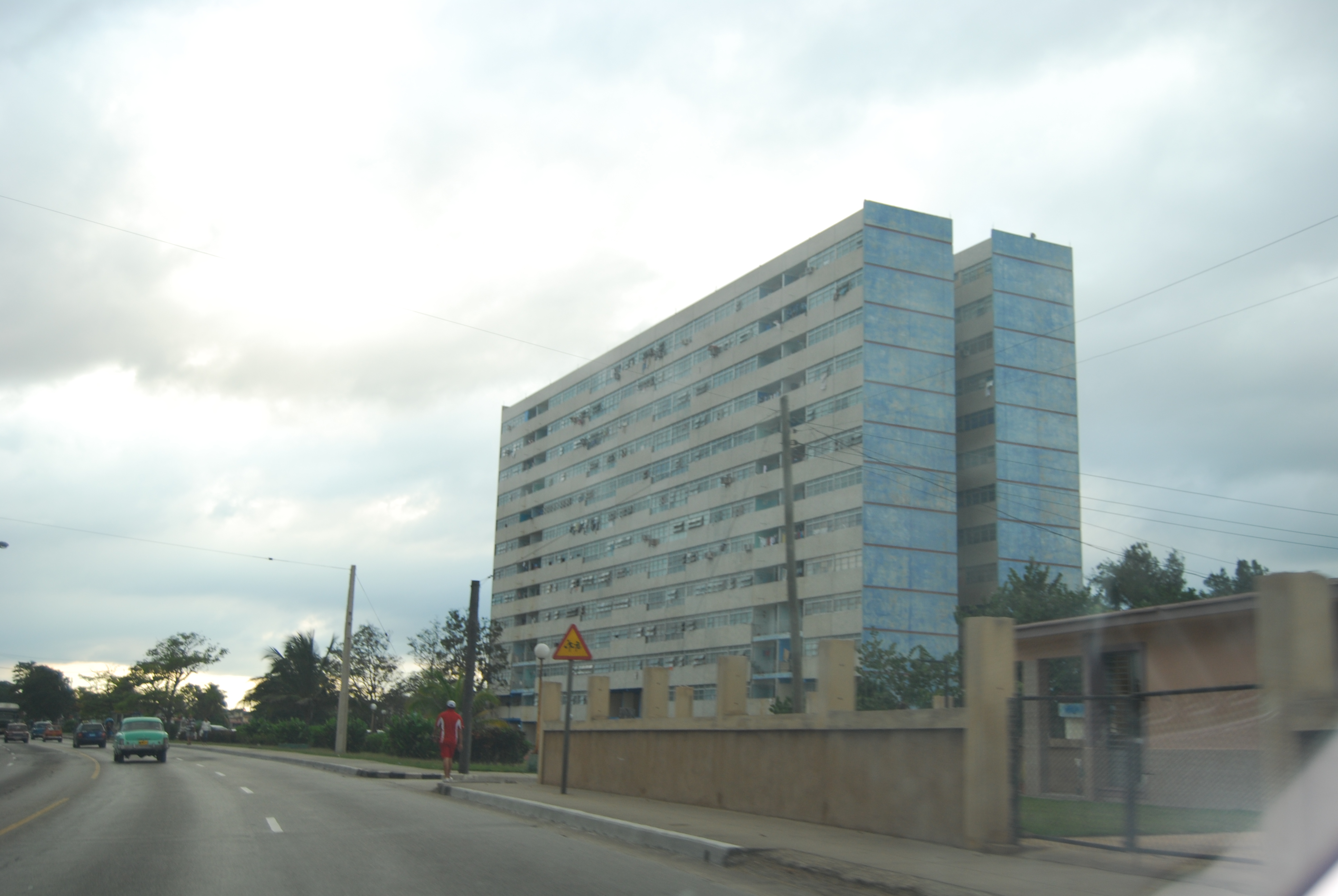 Matanzas, Cuba